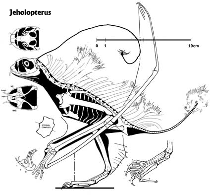 A lateral view reconstruction of the vampire pterosaur, Jeholopterus.Additional note by the author: This image is outdated. I encourage the use of an updated image found at